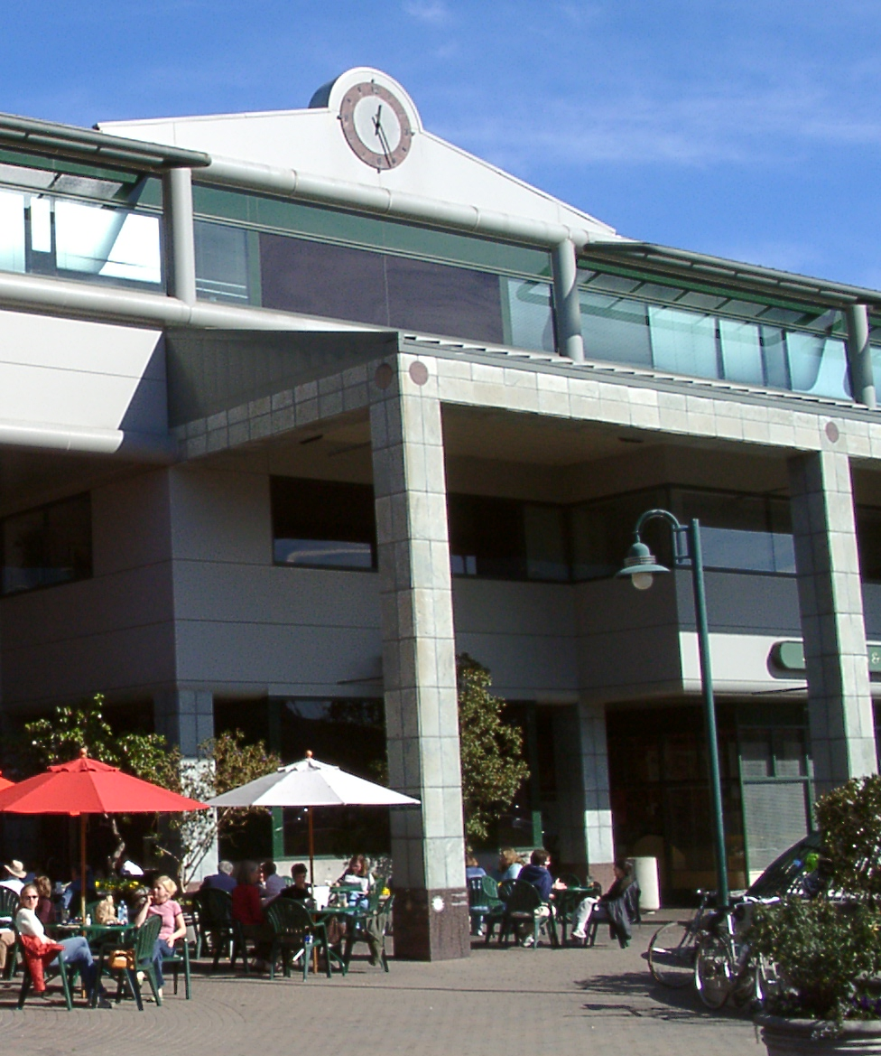 Cafe Borrone, adjacent to Kepler's Books in the Menlo Center, is a popular lunch spot in downtown Menlo Park.